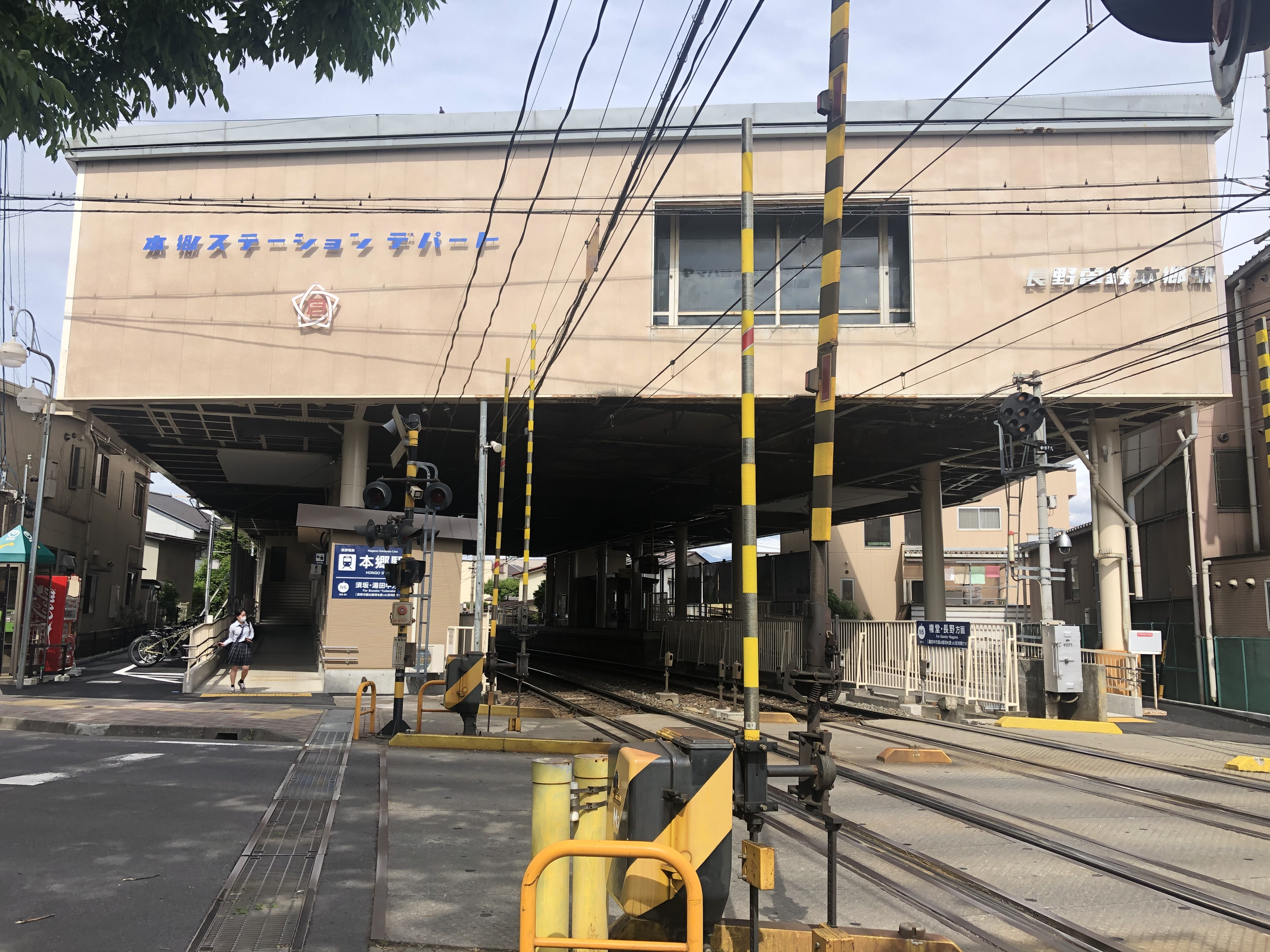 バリアフリー工事後の本郷駅